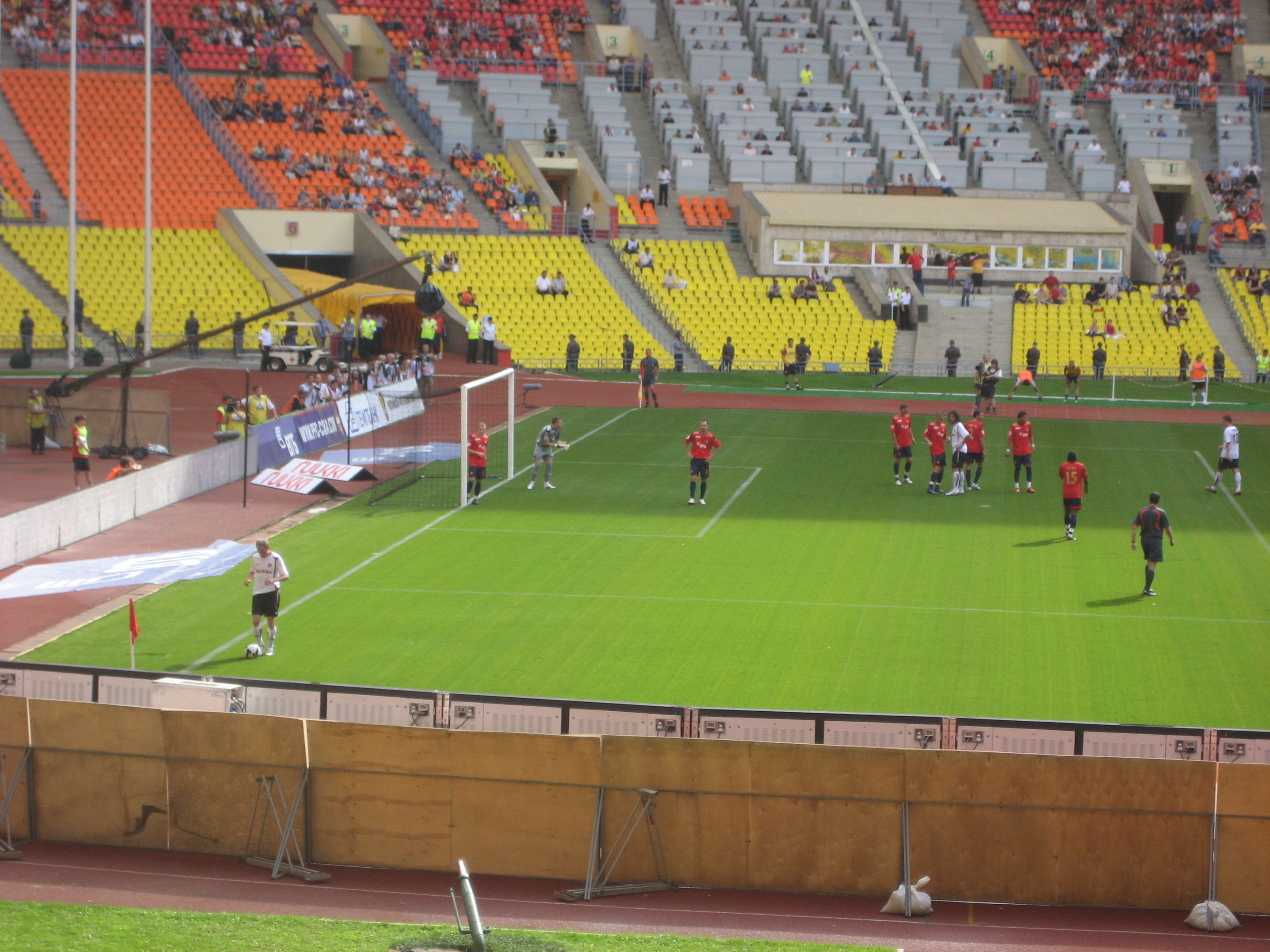 Russian football match «Moscow» — «CSKA». The corner by «Moscovites».